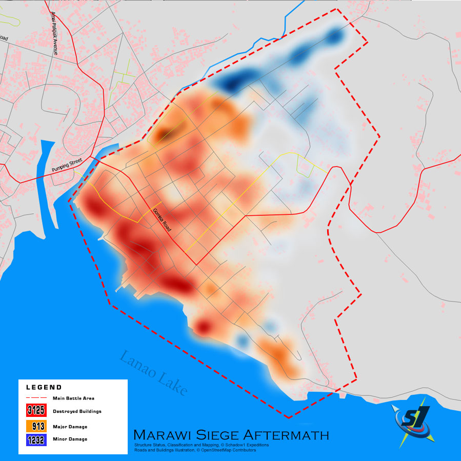 Status of structures inside Marawi City upon the aftermath of the crisis in 2017.